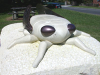 Statue of a cicada in Kihikihi, New Zealand, a town named with the Maori word for cicada